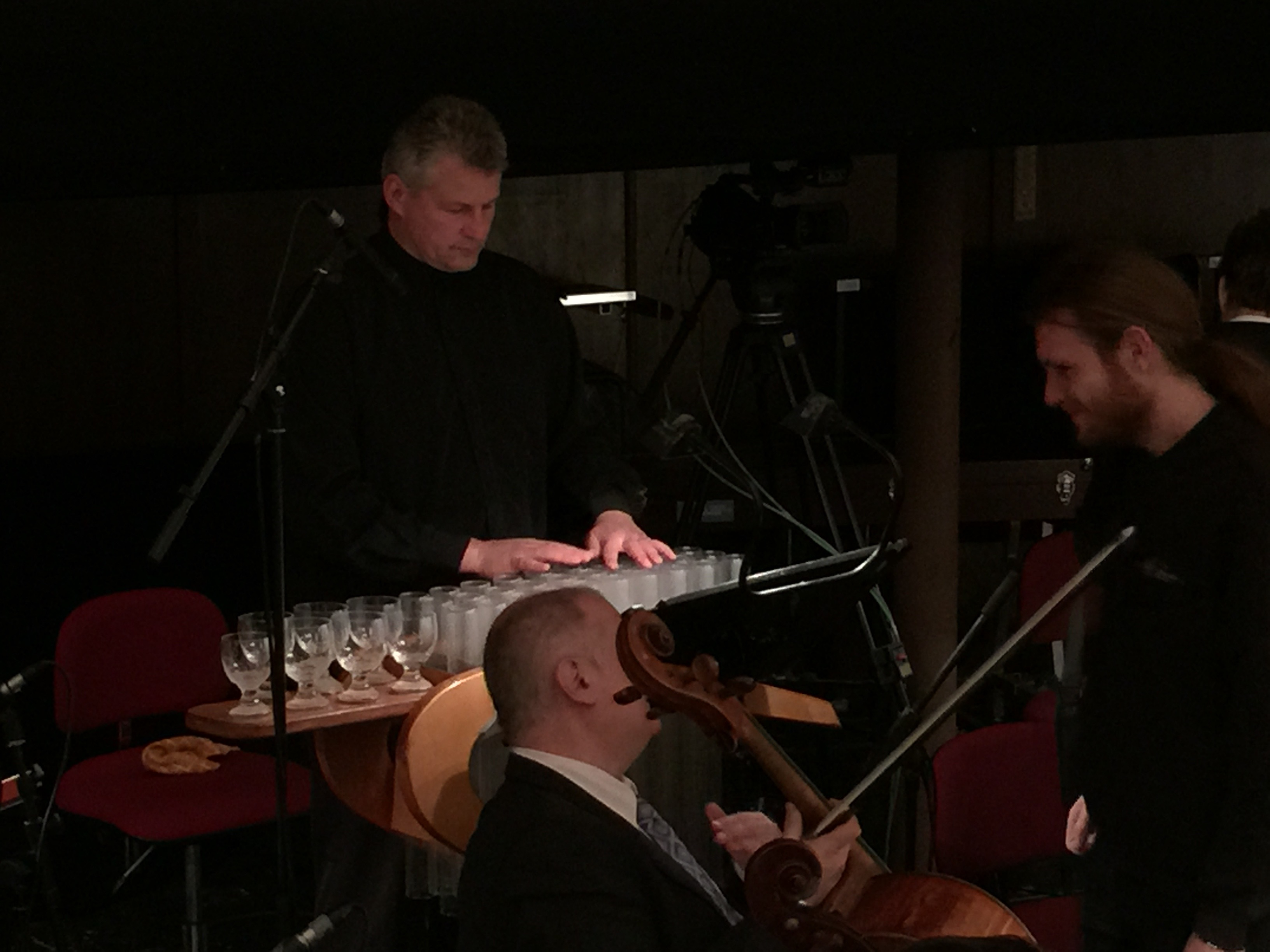 Glass harmonicist Sascha Heckert testing the glass harmonica at Teatro dell'Opera di Roma, during the intermission of Lucia di Lammermoor.